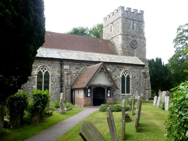 The church of St. Nicholas, Sturry Approaching the 16th century timber-framed porch of the north door.